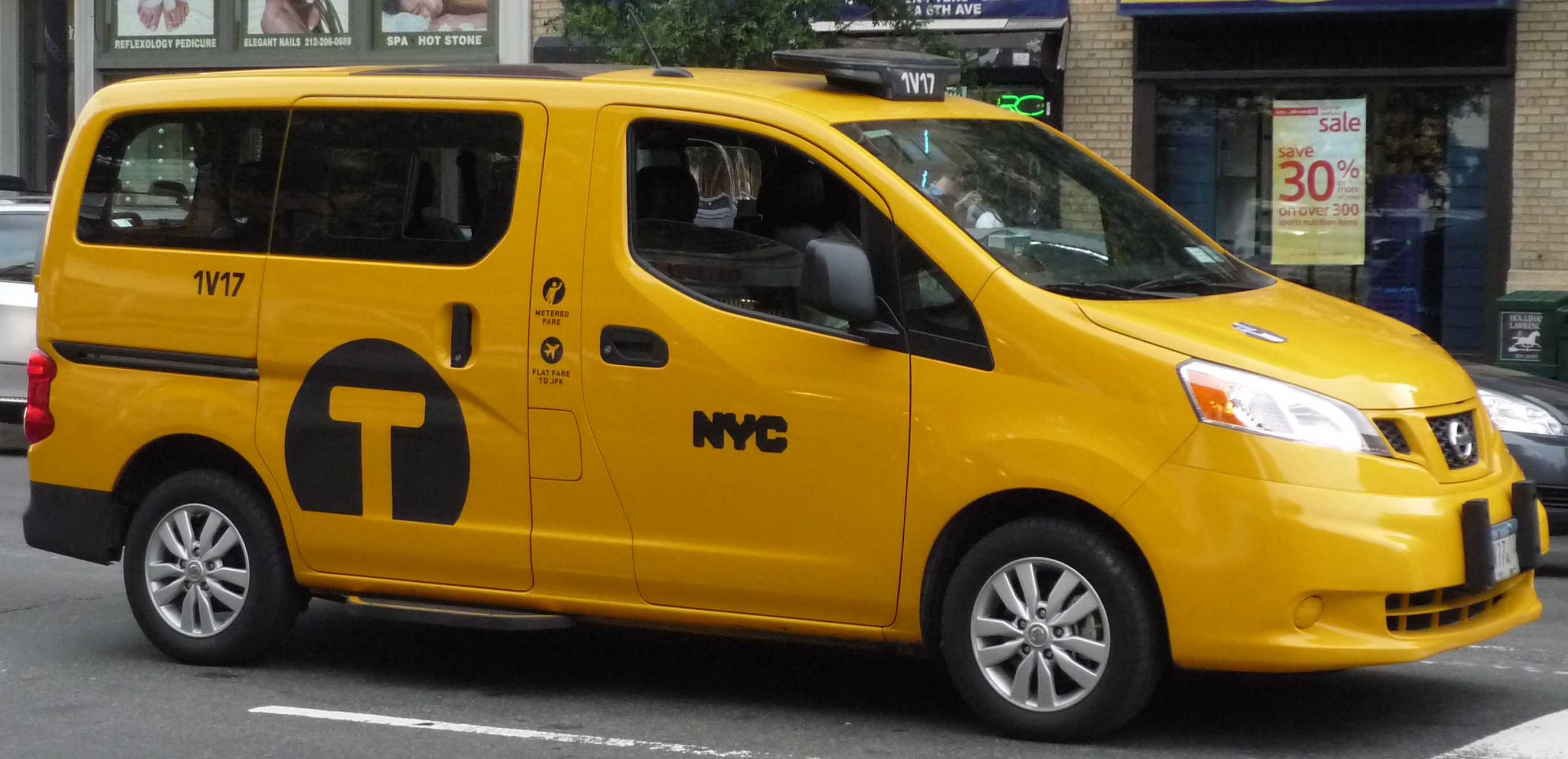 Nissan NV 200 in use as a taxi in NYC.